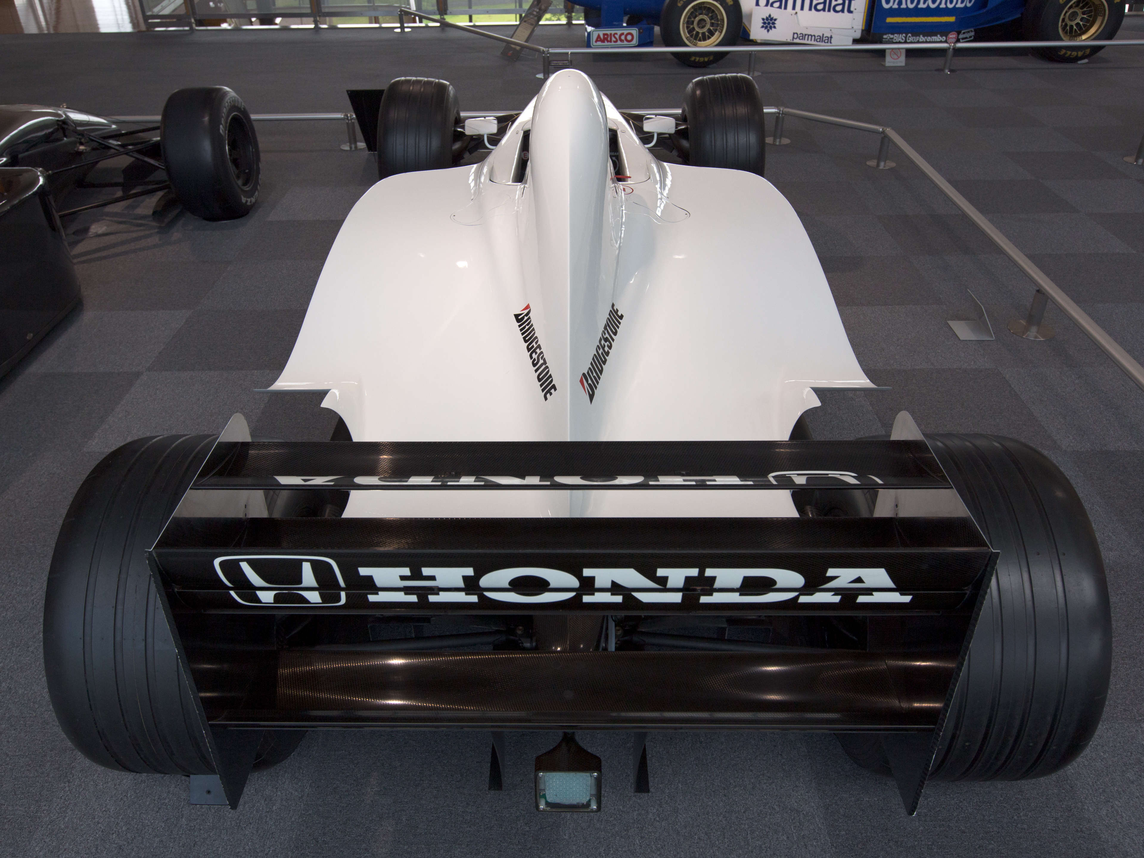 1999 Honda RA099